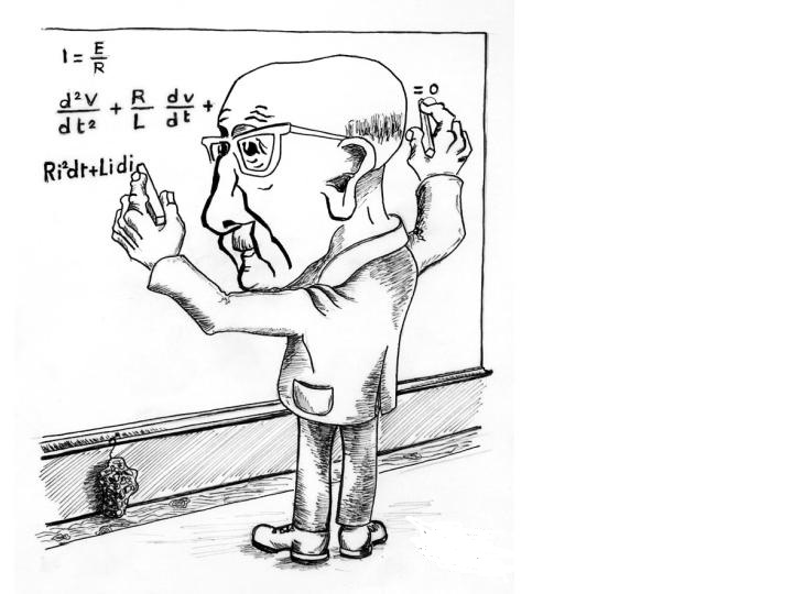 Ingénieur général Sabatier - croquis au tableau